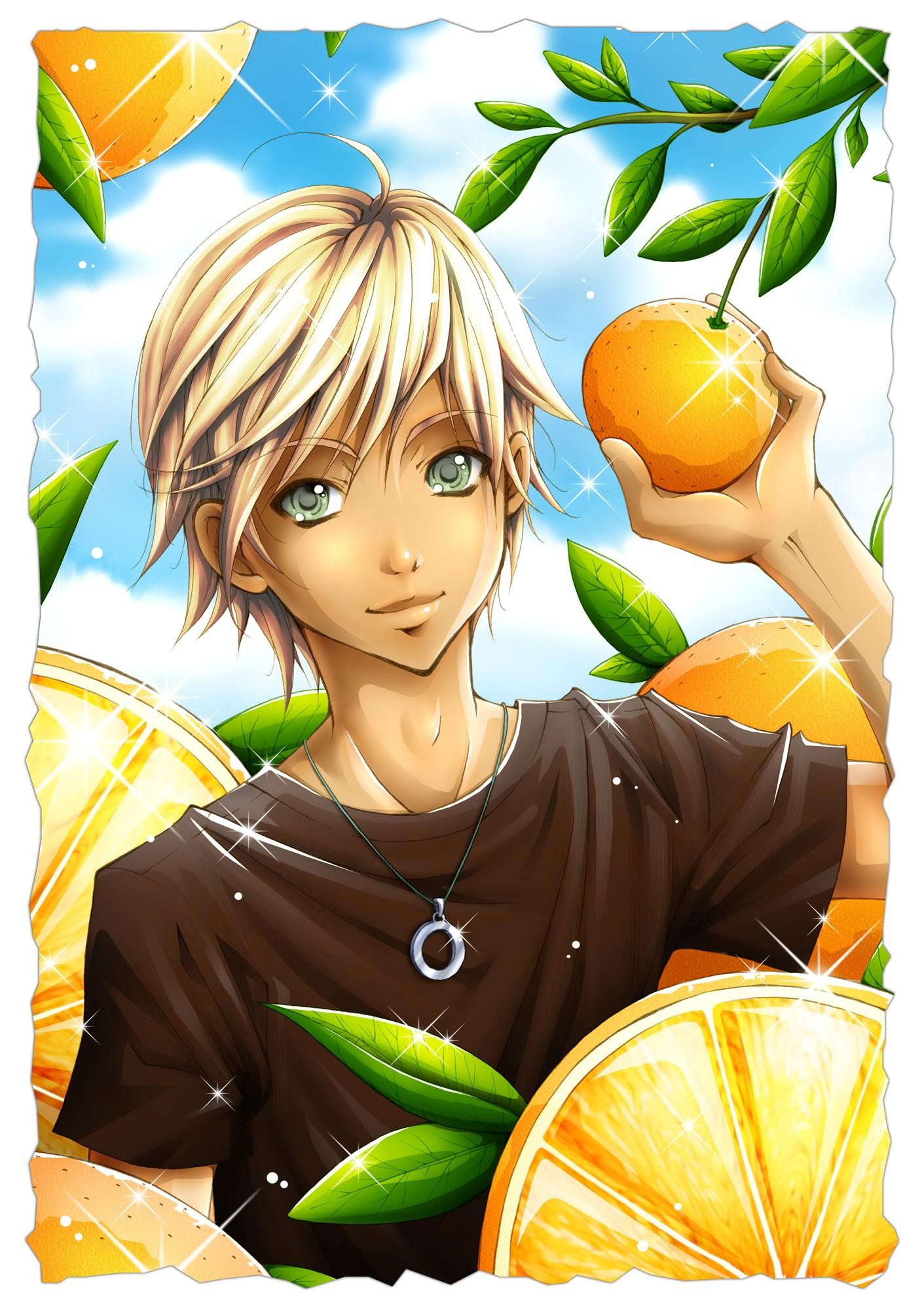 Artwork demonstrating the style of Bishōnen